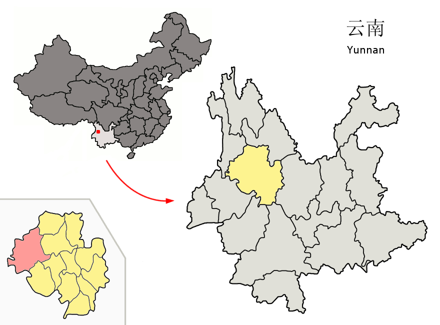 Location of Yunlong County (pink) and Dali Prefecture (yellow) within Yunnan province of China Map drawn in september 2007 using various sources, mainly : Yunnan province administrative regions GIS data: 1:1M, County level, 1990 Yunnan Counties map from